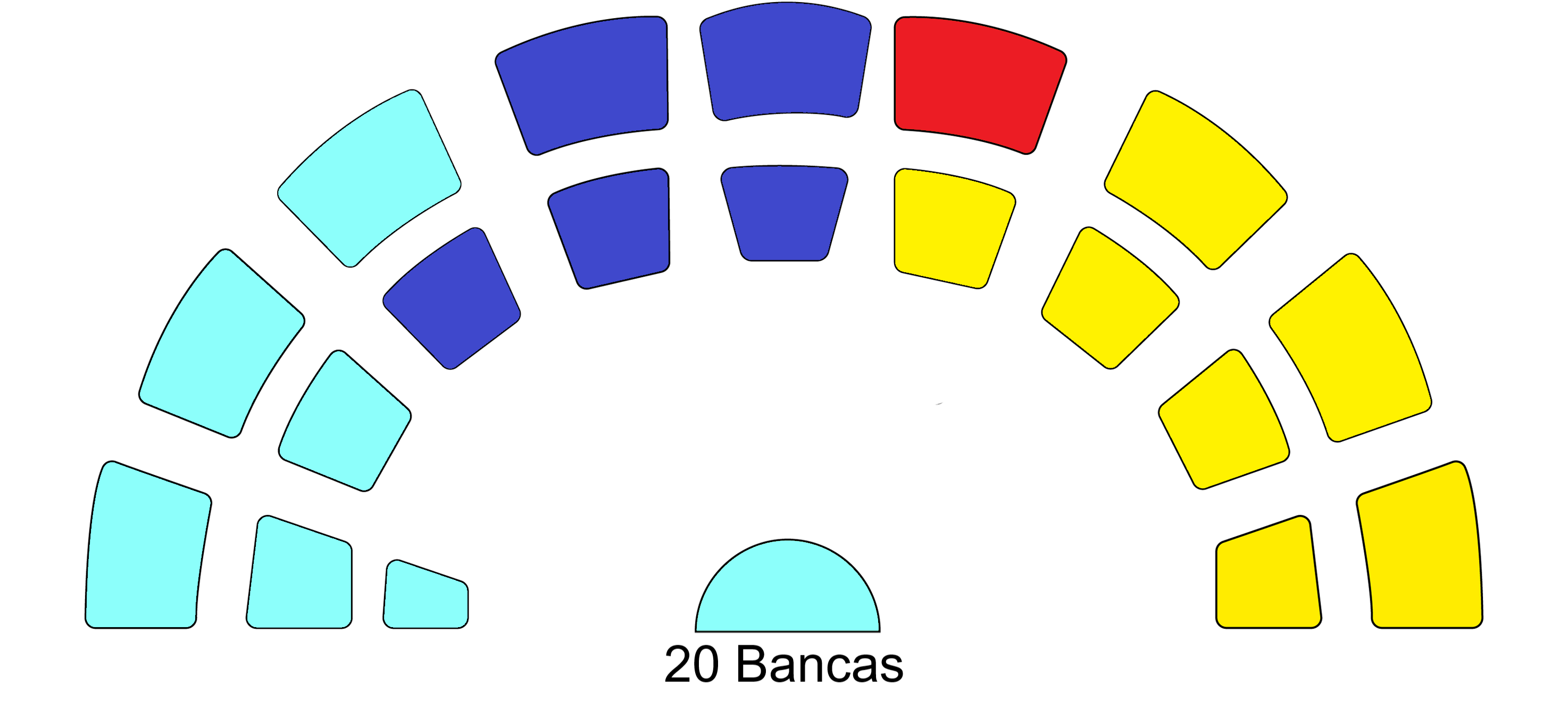 Deliberative Council of the municipality of Ezeiza